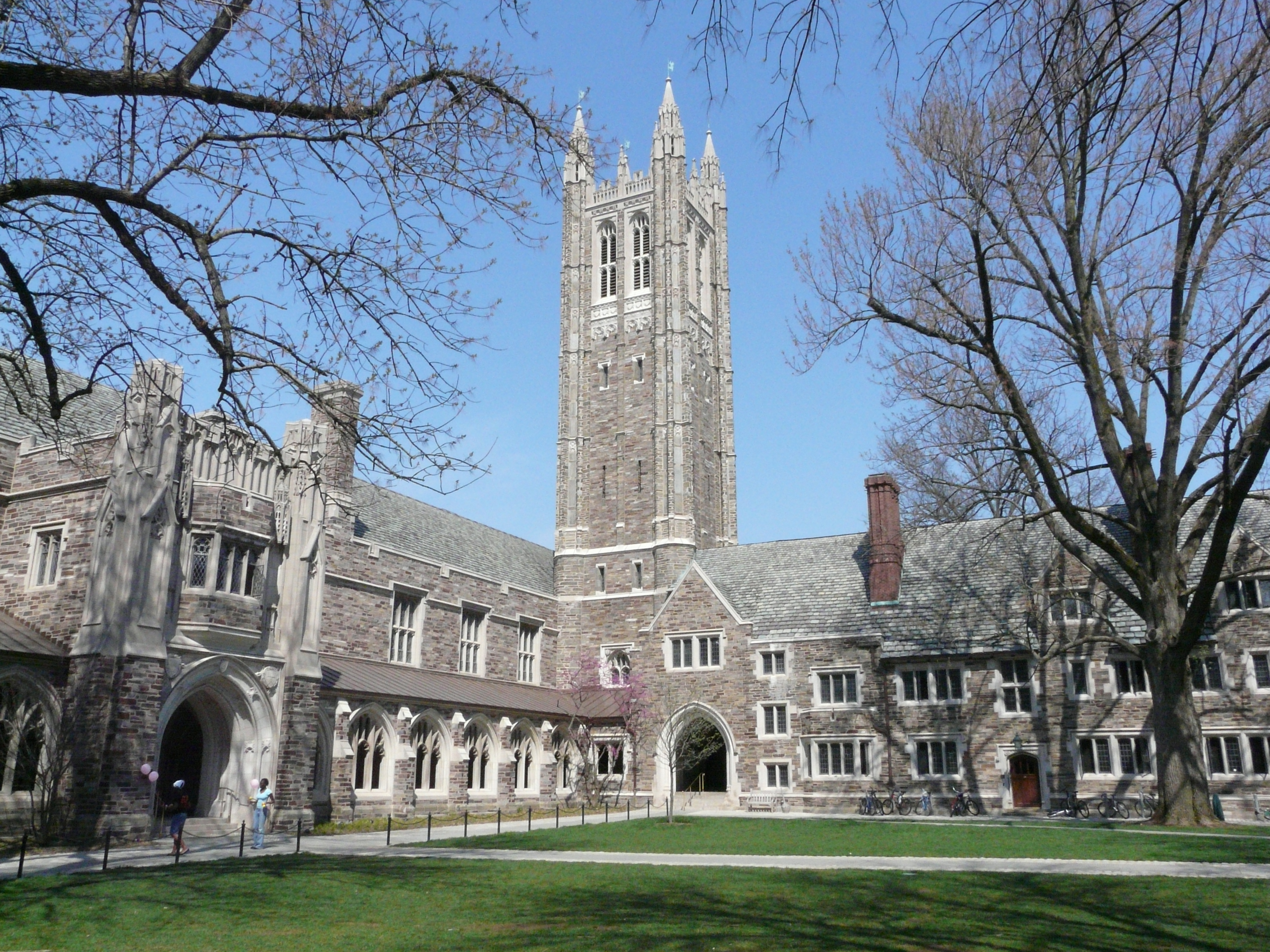 Holder Hall and tower of Rockefeller College of Princeton University